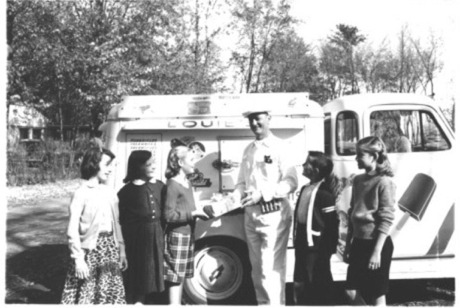 A vintage ice cream truck